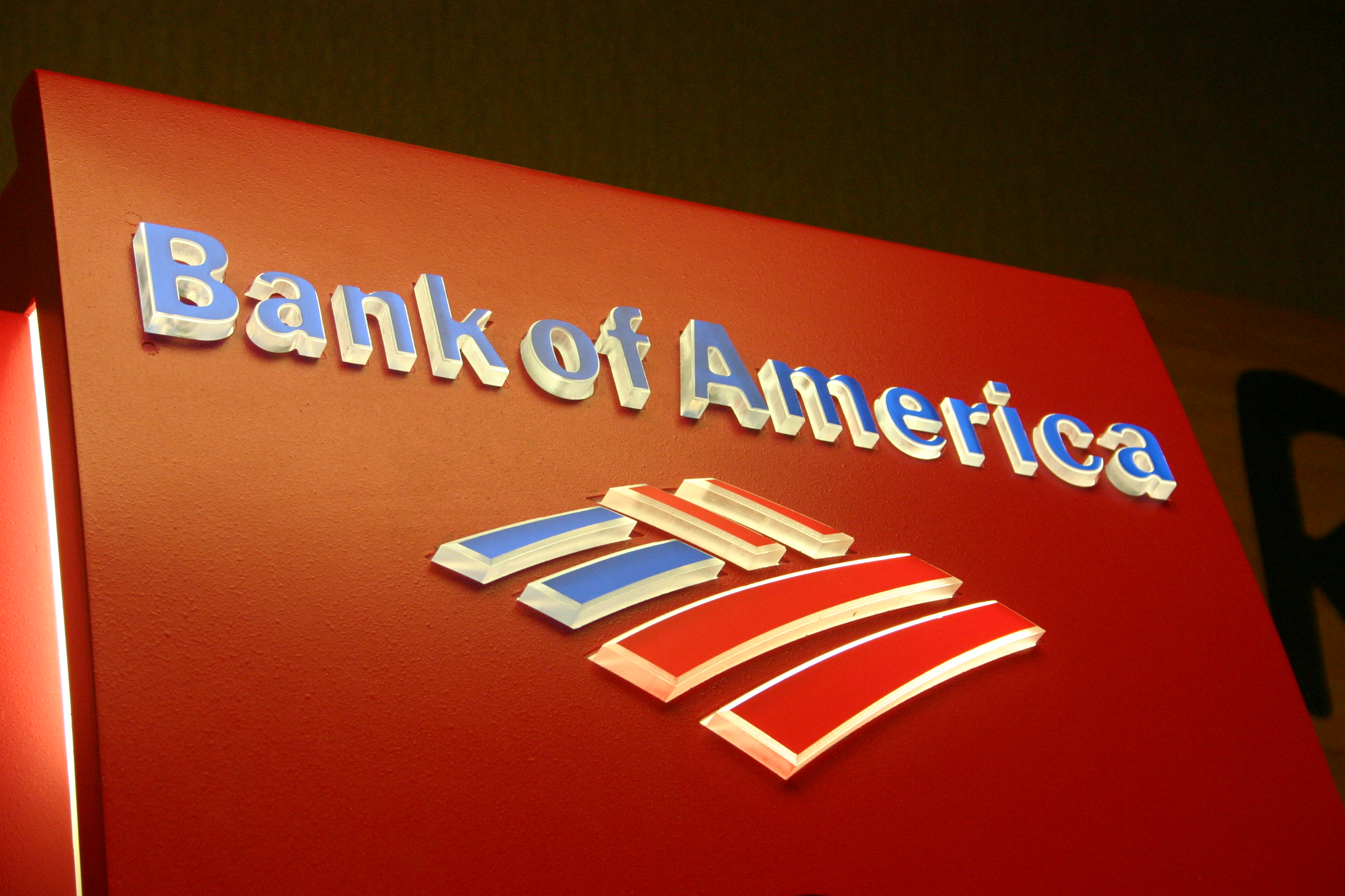 Photo of Bank of America ATM Machine by Brian Katt, Framingham Rest Stop, Massachusetts.